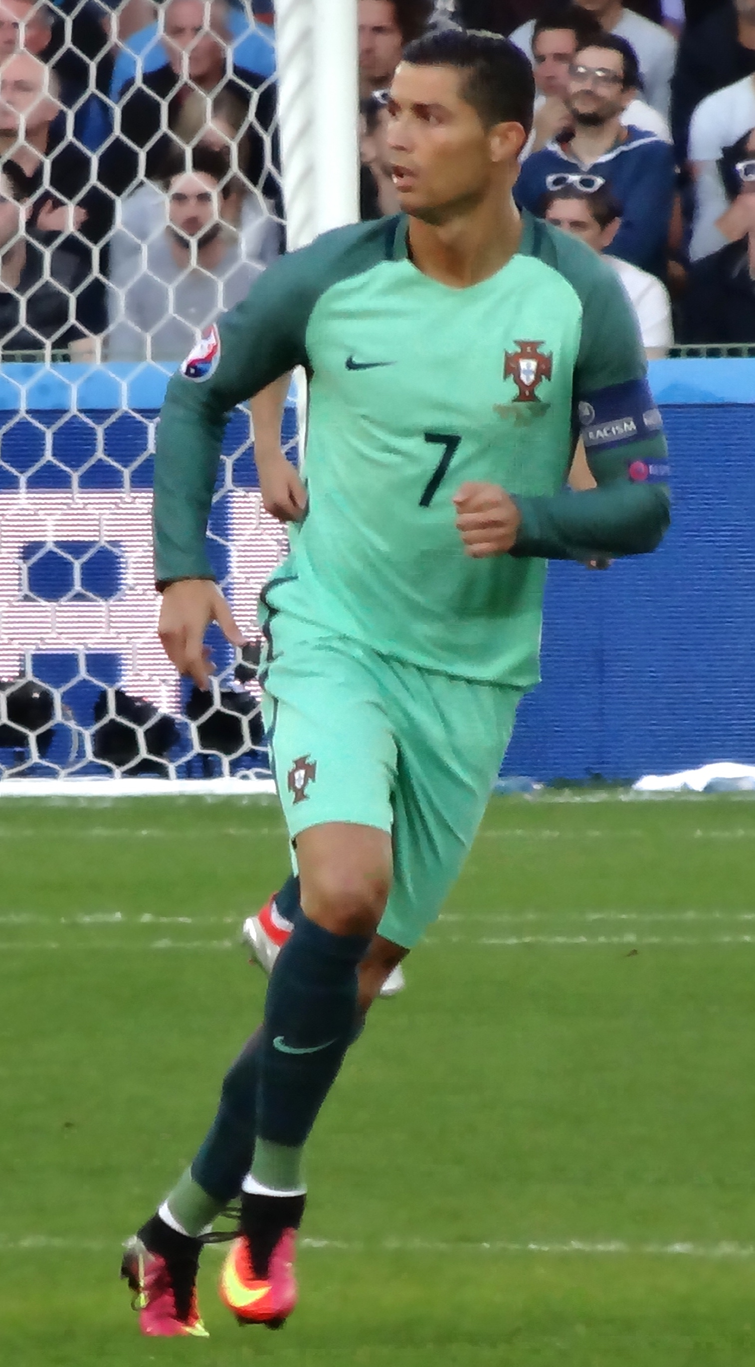 Cristiano Ronaldo Euro 2016